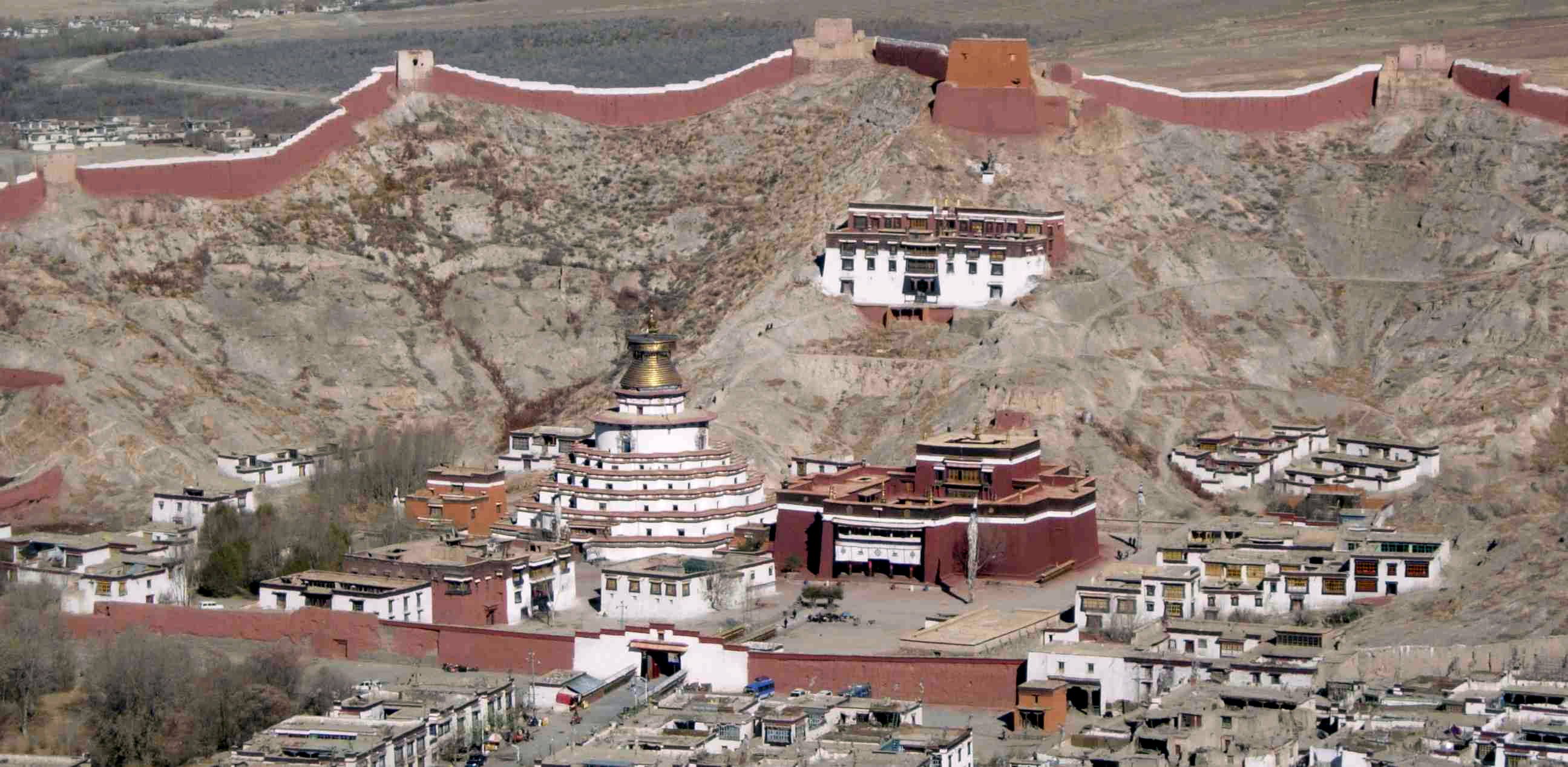 Photograph taken in November 2005 by Mark Evans (uploader) using a Nikon Coolpix 5200. Photograph is of Palcho Monastery as seen from Gyantse Fortress. The red building in the center is the monastery itself. The white building to the left is its famous Kumbum with 108 chapels.